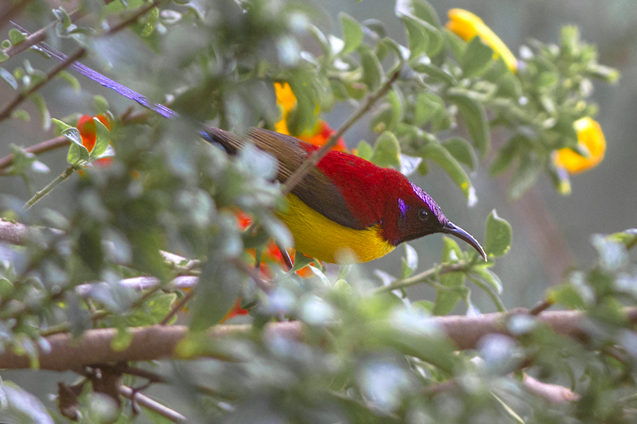 The species Crimson Sunbird had been photographed during the birding tour of GoingWild in Khangchendzonga National Park, West Sikkim, India on 30.03.2016.